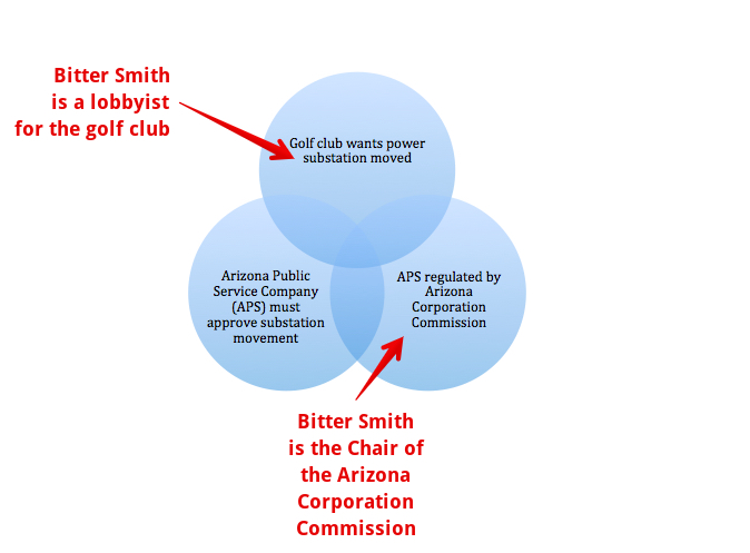 Venn diagram illustrating conflict of interests related to Arizona politician Susan Bitter Smith.